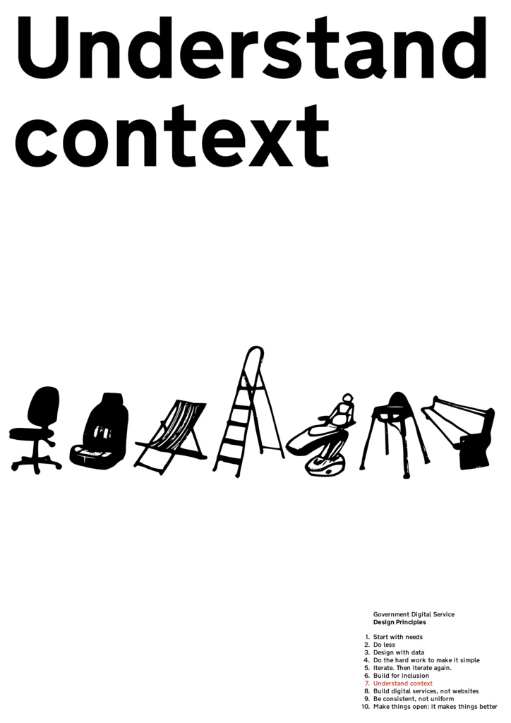 A few chairs that all are practical but used for different tasks